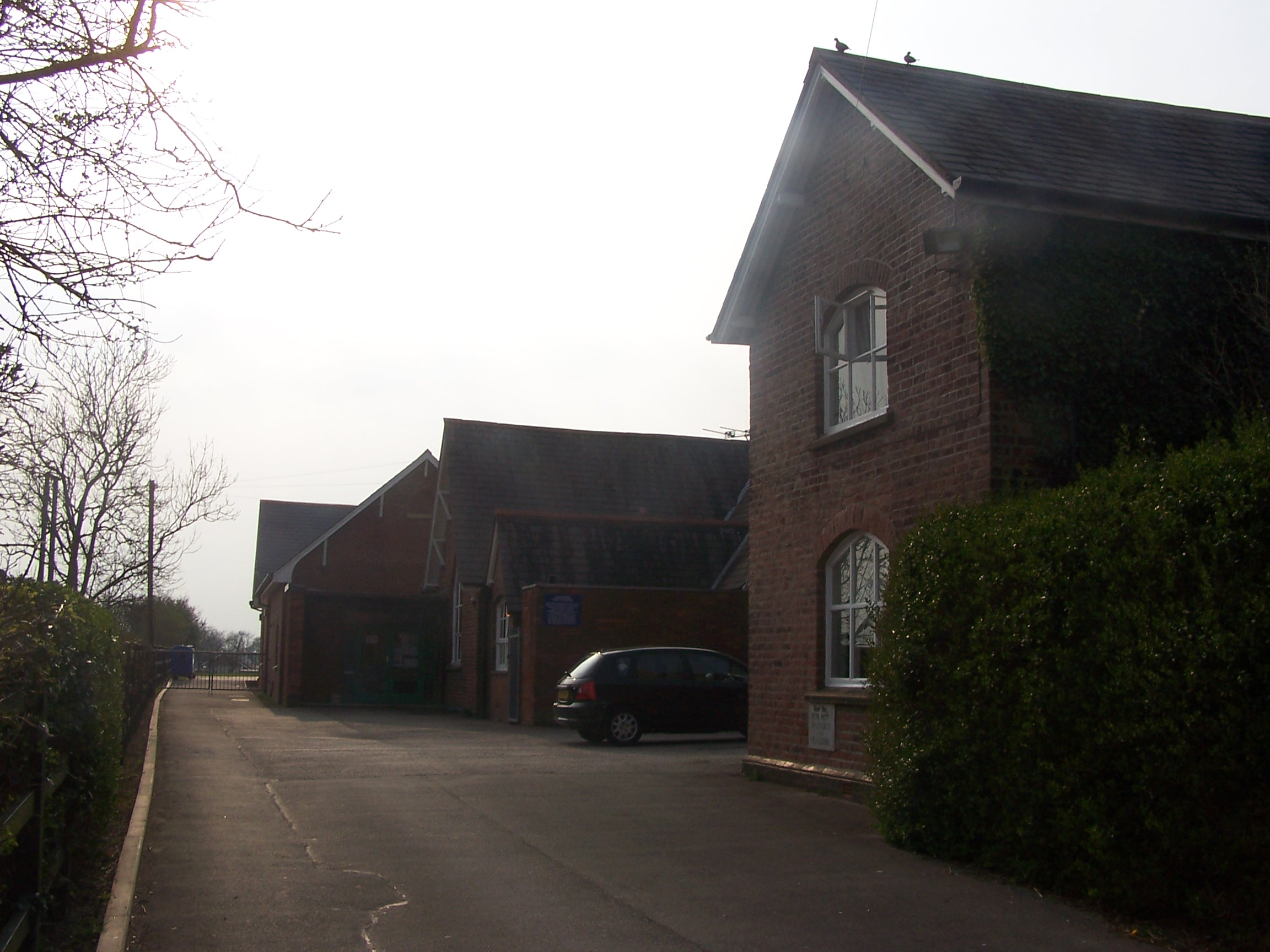 A view of Stalmine County Primary School, Stalmine, Lancashire. Photo taken by ♦Tangerines BFC ♦·Talk on 12 April, 2007.